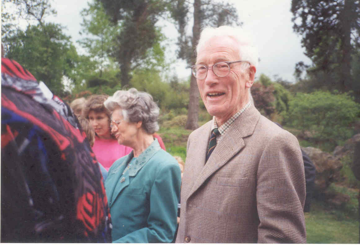 Photo of couple